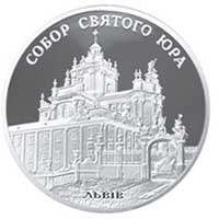 Coin of Ukraine